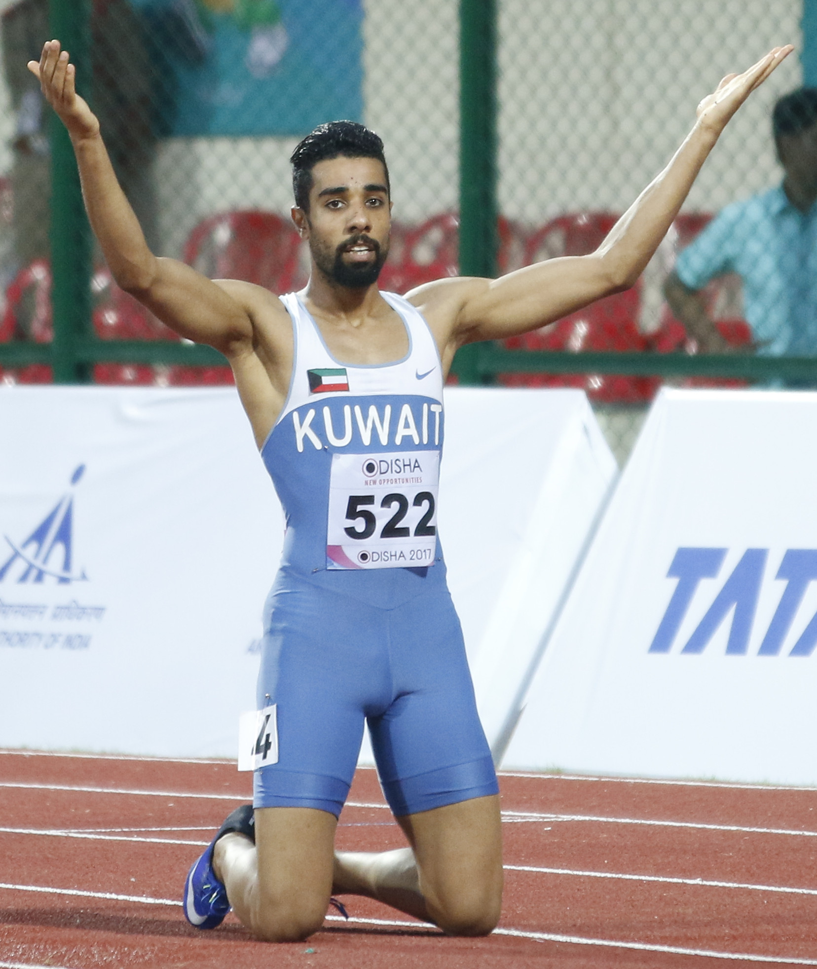 Athletes during 22nd Asian Athletics Championships in Bhubaneswar.